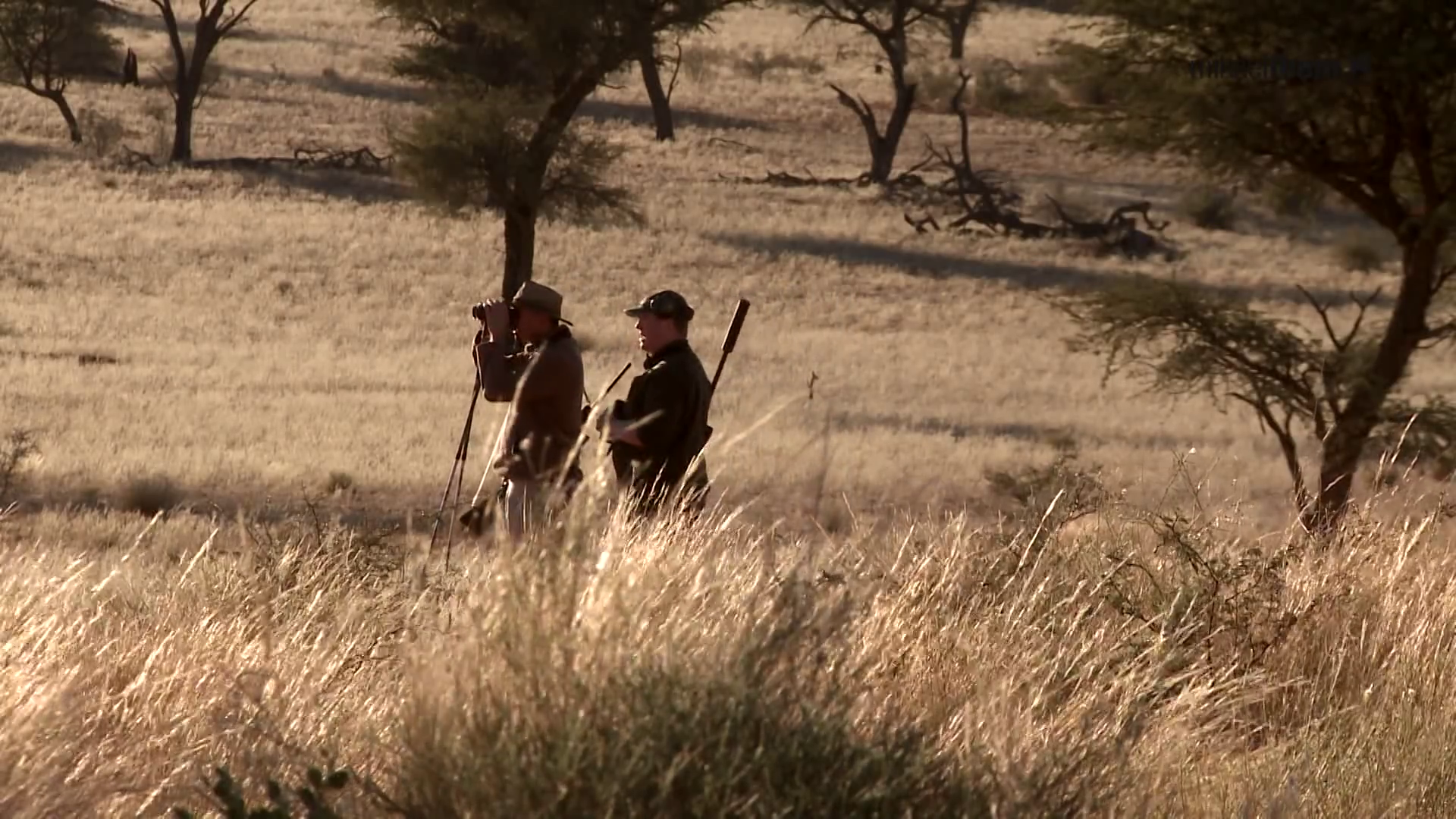 Professional hunter (PH) of Namatubis Hunting Safari (left) with a hunting guest (right) hunting African big-game in the Kalahari Desert, Namibia